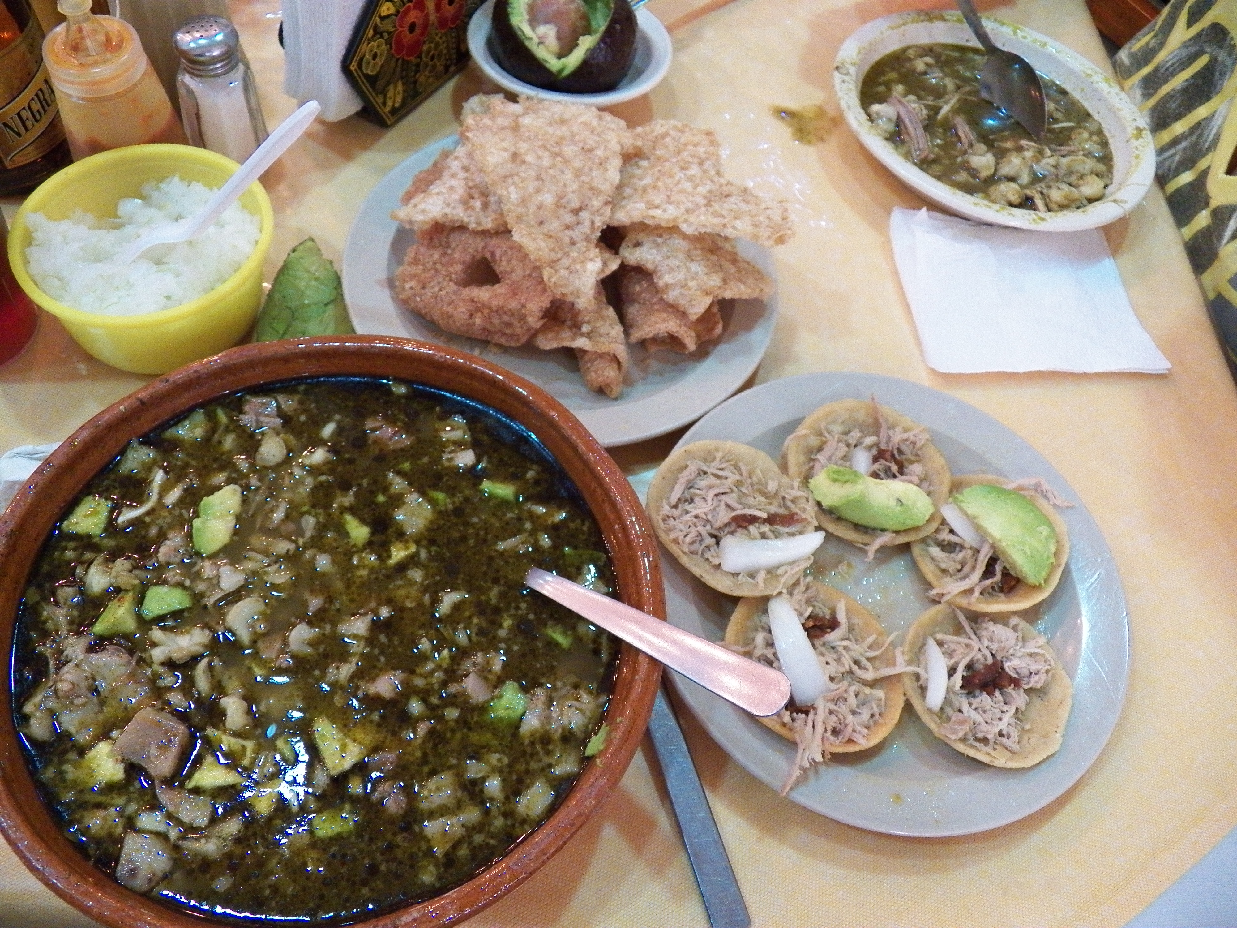 Green Pozole stew, cooked in traditional Guerrero State style